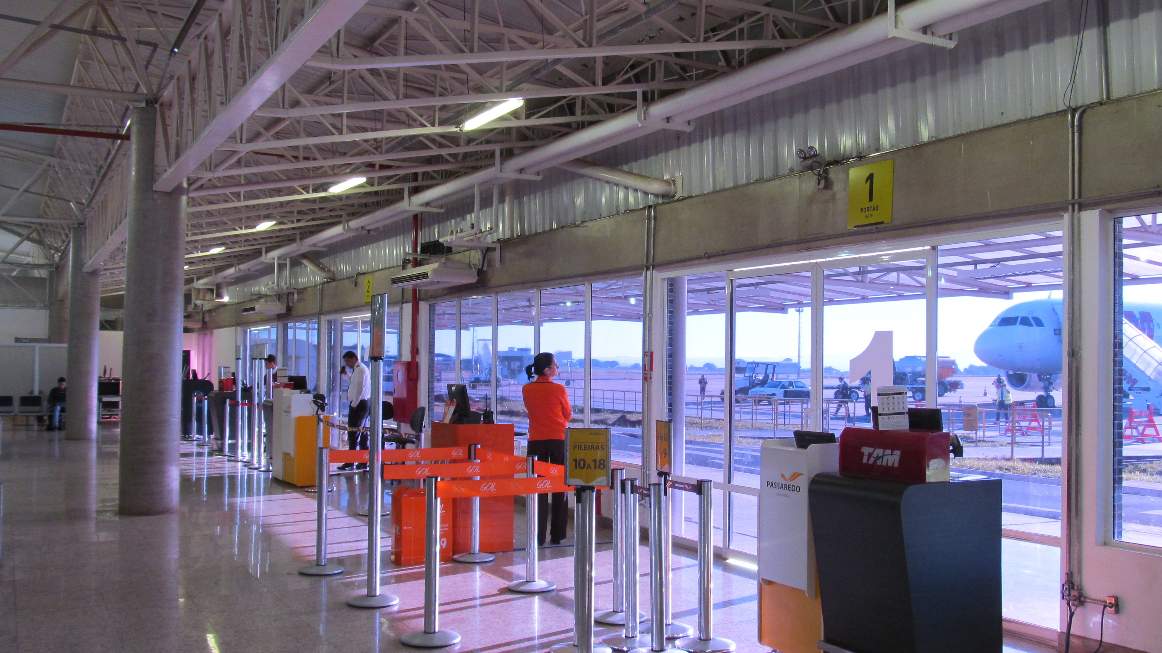 Ribeirão Preto Airport (RAO) Gates 1-3, São Paulo, Brazil